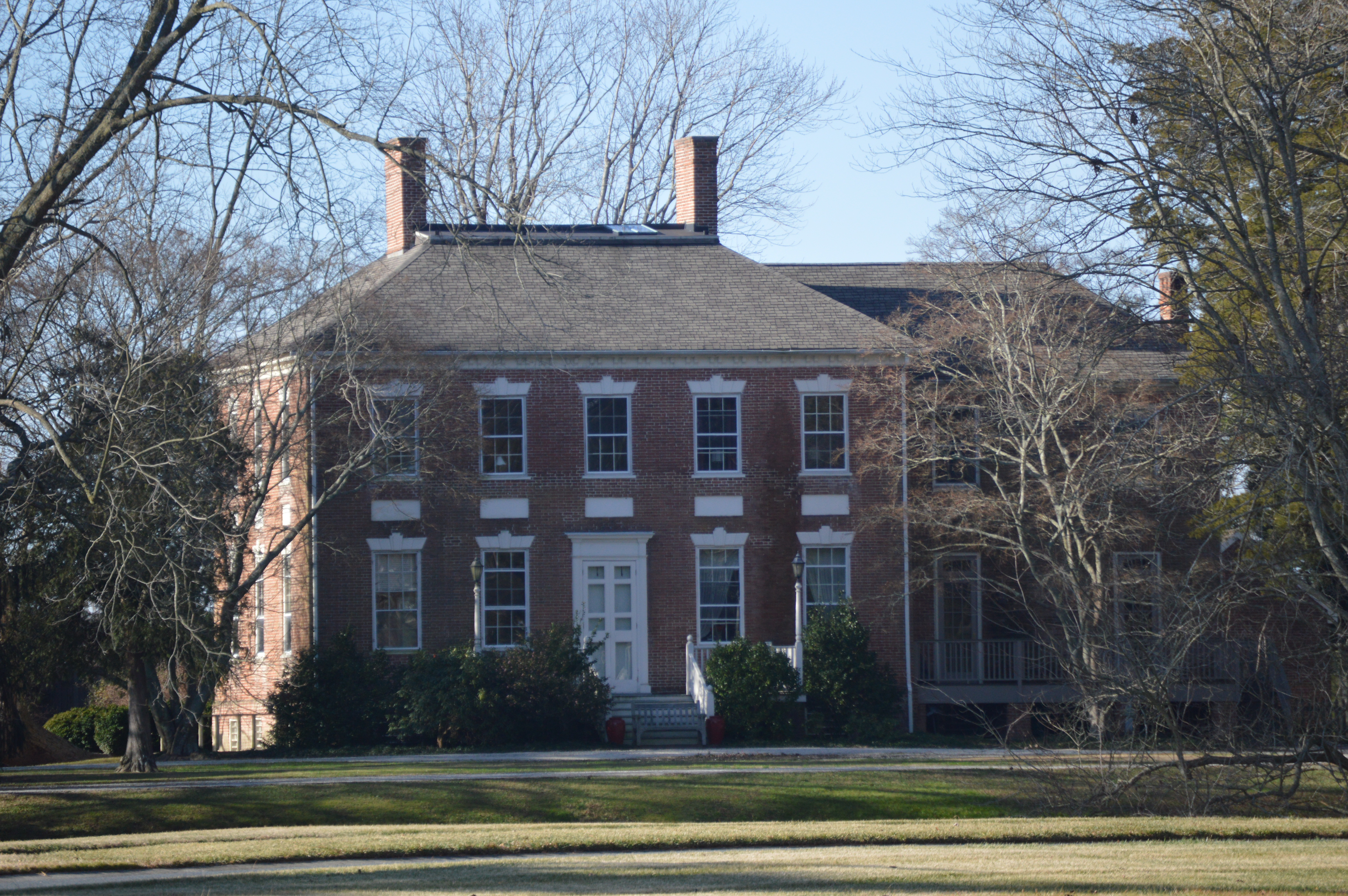 Distant view from the east of Beckford, located on Mansion Street in Princess Anne, Maryland, United States. Built in 1803, it is listed on the National Register of Historic Places.